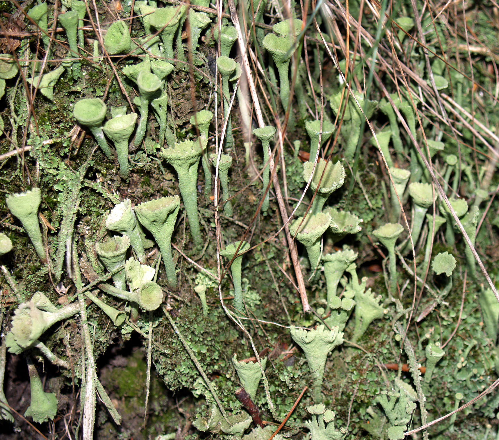 Cladonia fimbriata, Kottmar, Germany